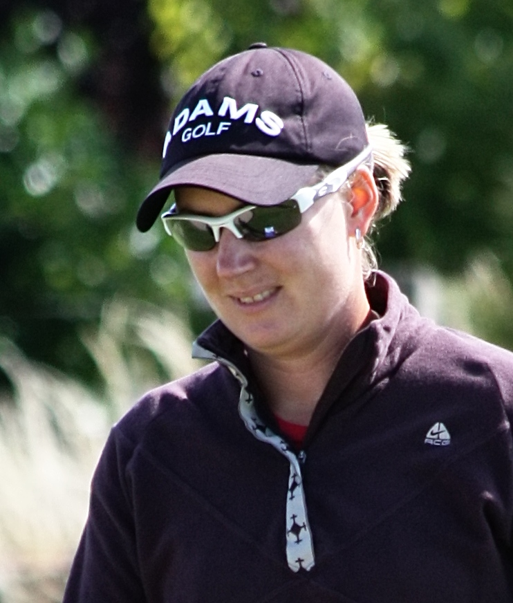 LYTHAM ST ANNES, UNITED KINGDOM - JULY 27: Lindsey Wright of Australia on the 2nd green during first practice round before 2009 Ricoh Women's British Open held at Royal Lytham & St Annes on July 27, 2009 in Lytham St Annes, England. (Photo by Wojciech Migda)